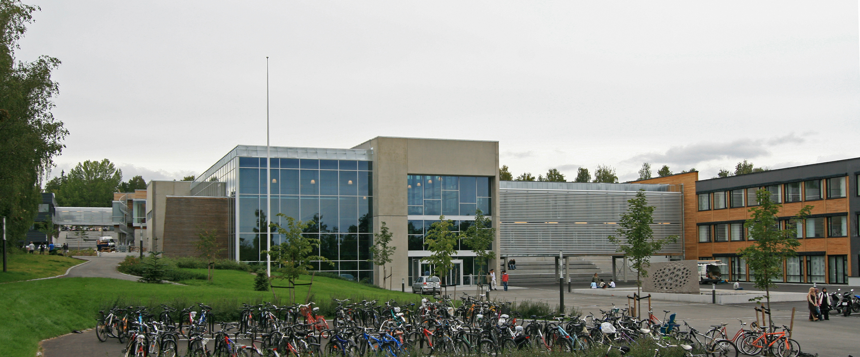 Hamar katedralskole, Hamar, Norway